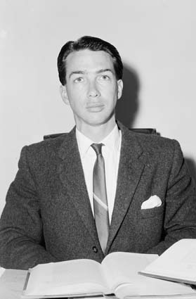 A 1963 black and white portrait of Don Dunstan, MP for Norwood